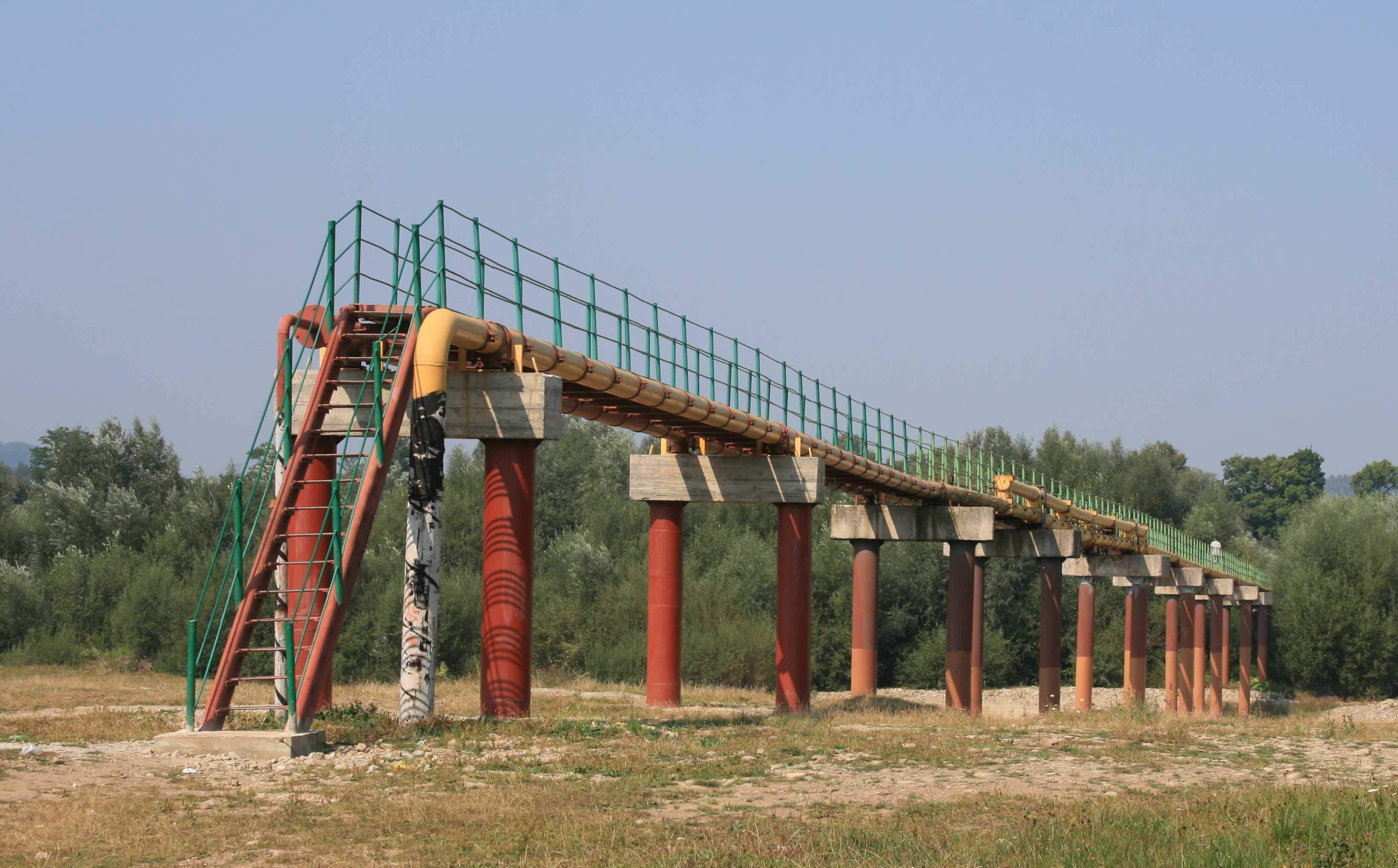 Surface (on the river Stryi) of the oil pipeline "Druzhba" in the village Rozhirche (Skole district, Lviv region)